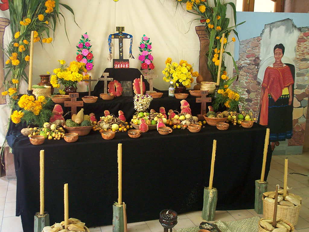 mexico-Day_of_the_Dead_altarDay of the Dead altar